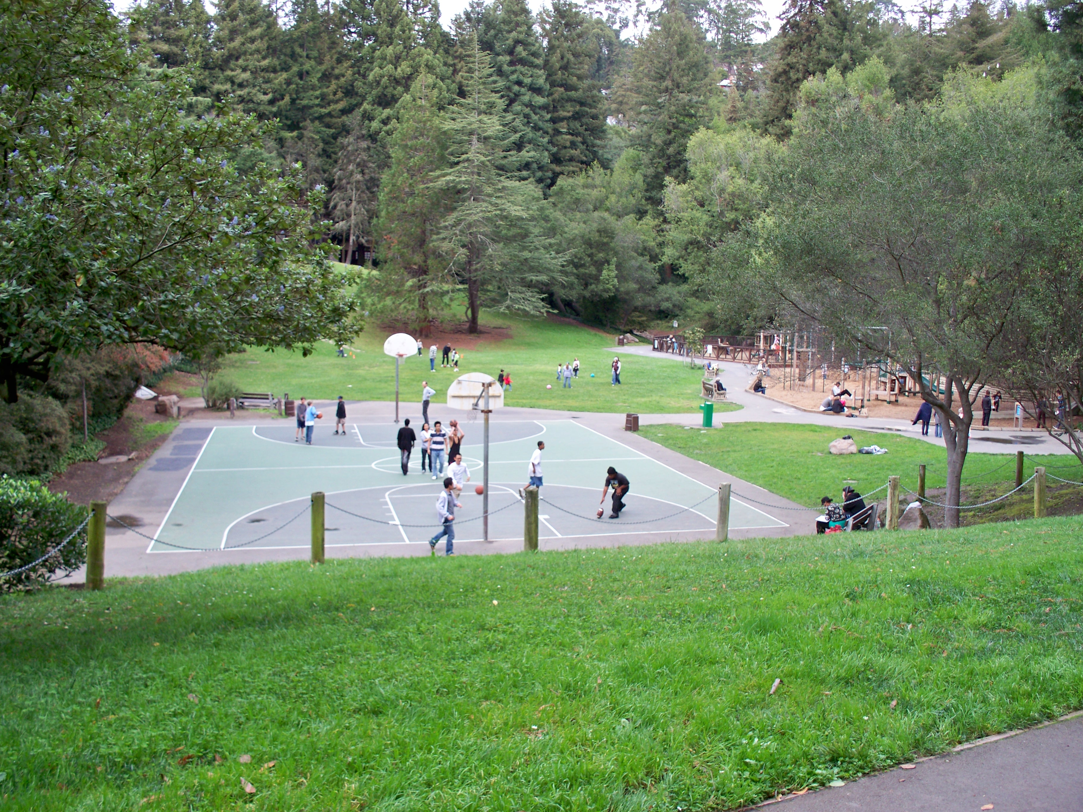 Codornices Park in Berkeley, CA, near Berkeley Rose Garden